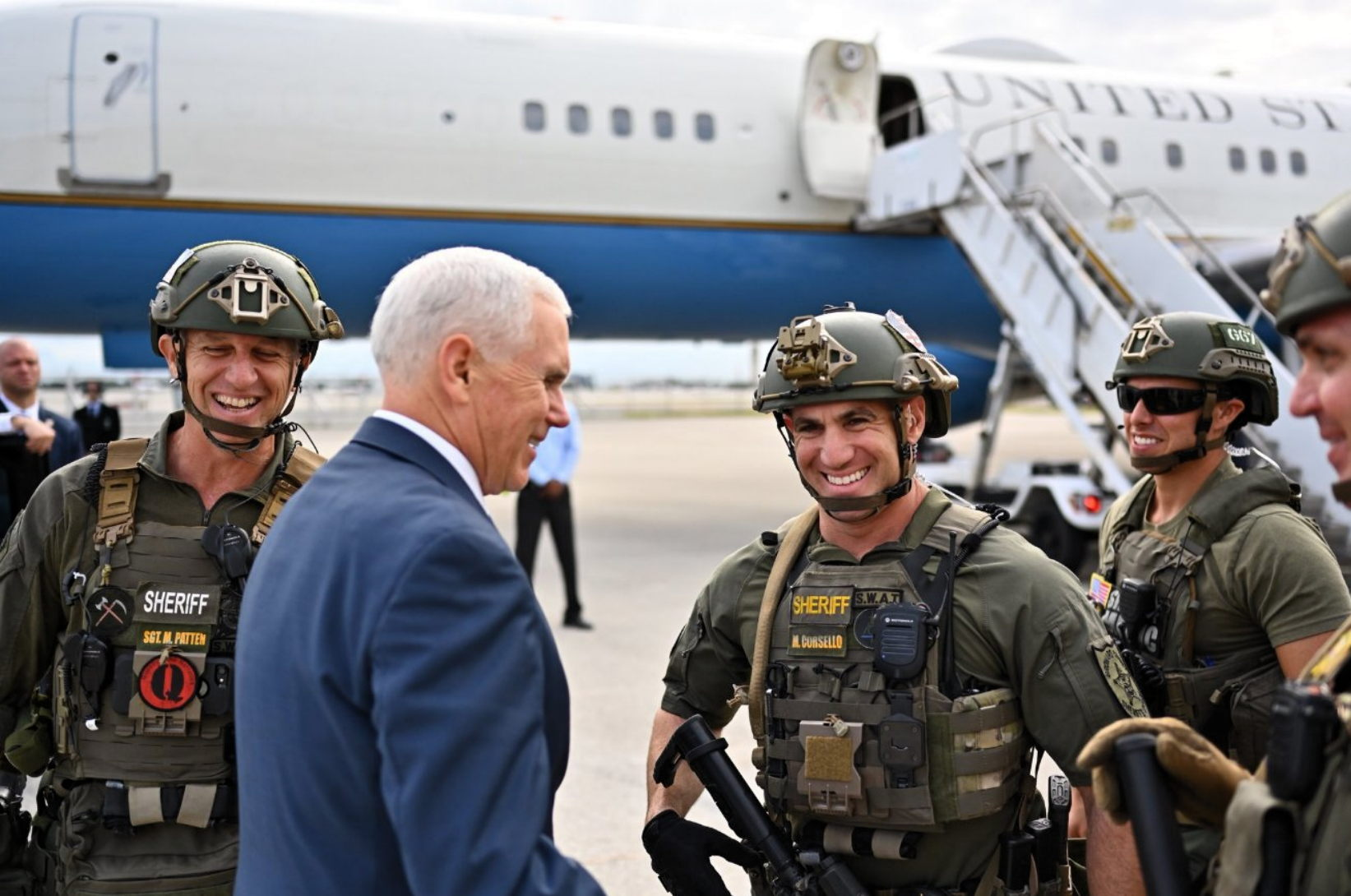 Vice-President Mike Pence posing with members of the Broward County, Florida SWAT team, one of whom is wearing a patch of the "QAnon" far-Right conspirationist movement.